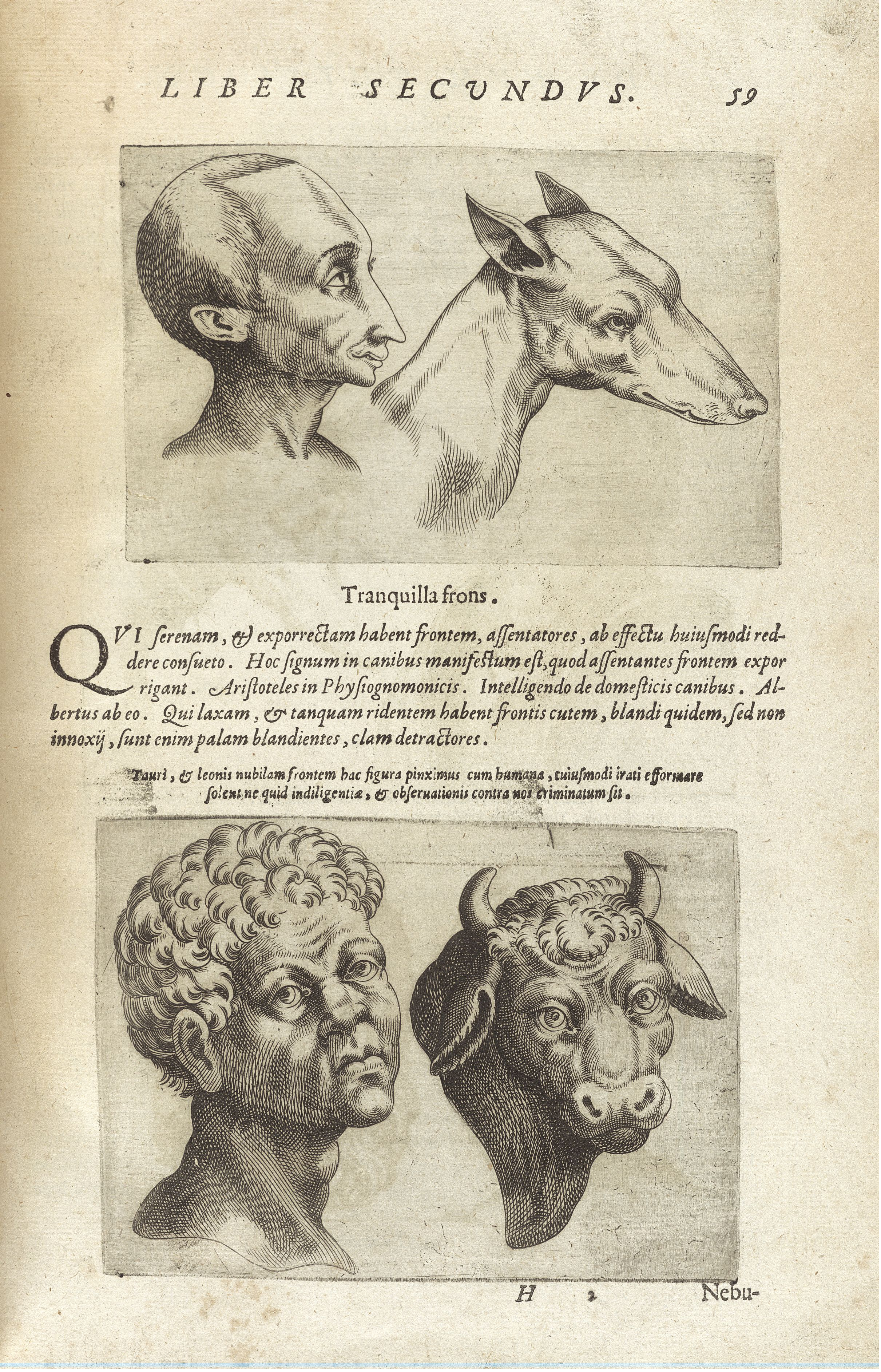 De humana physiognomonia libri IIII (1586) by Giambattista della Porta, page 59.